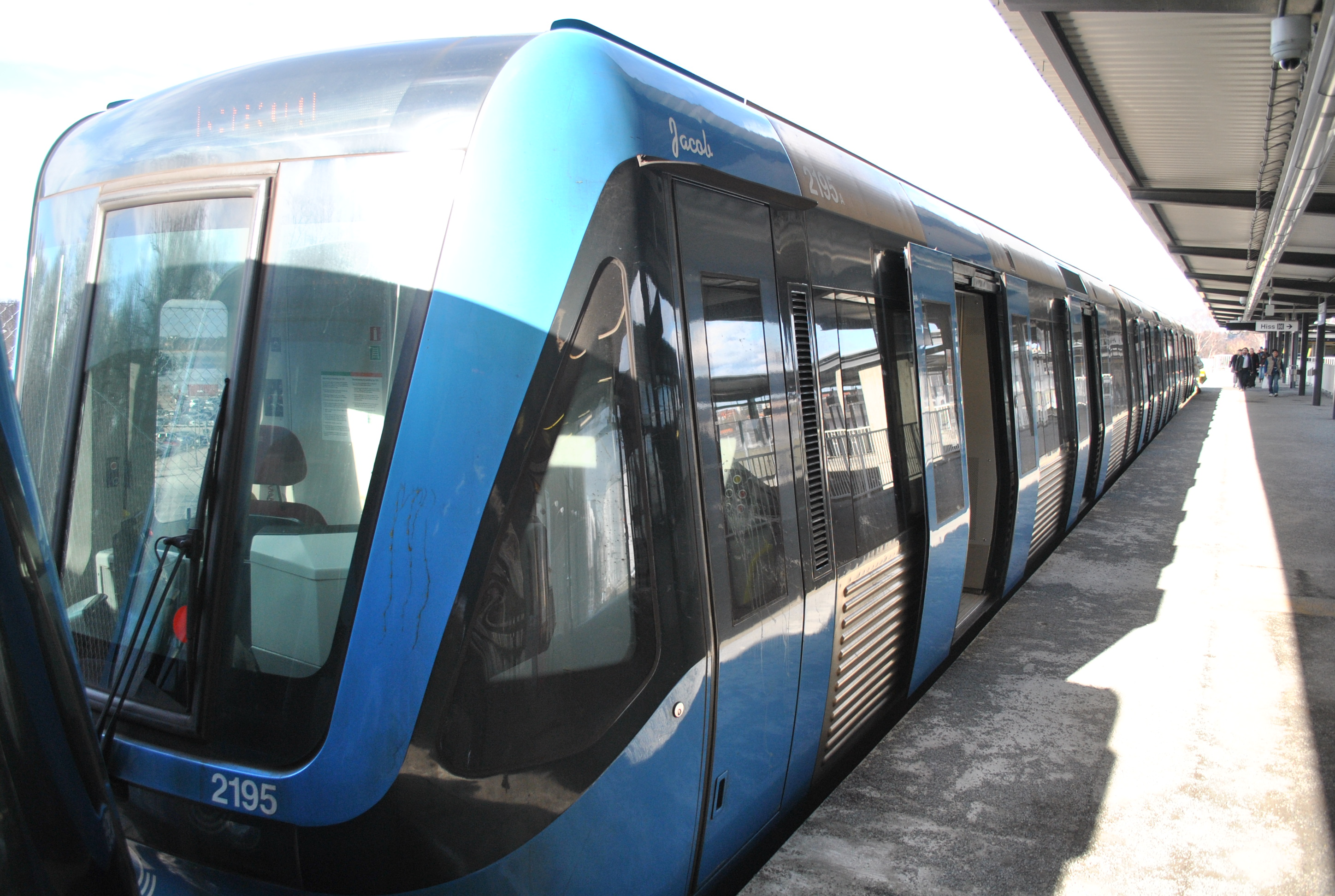 A subway train lit. C20 on the station Ropsten in Stockholm, Sweden